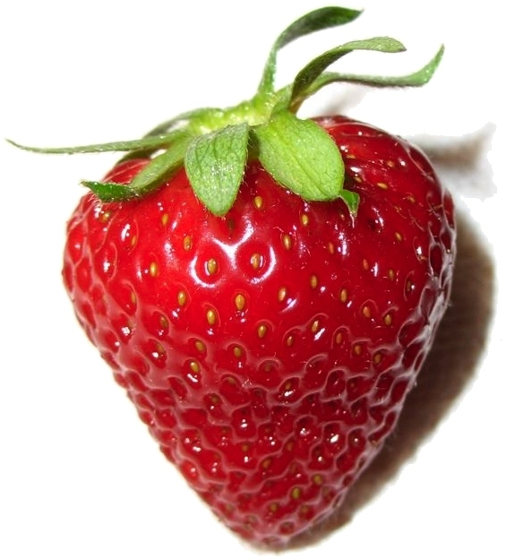 A picture perfect Strawberry from my garden.